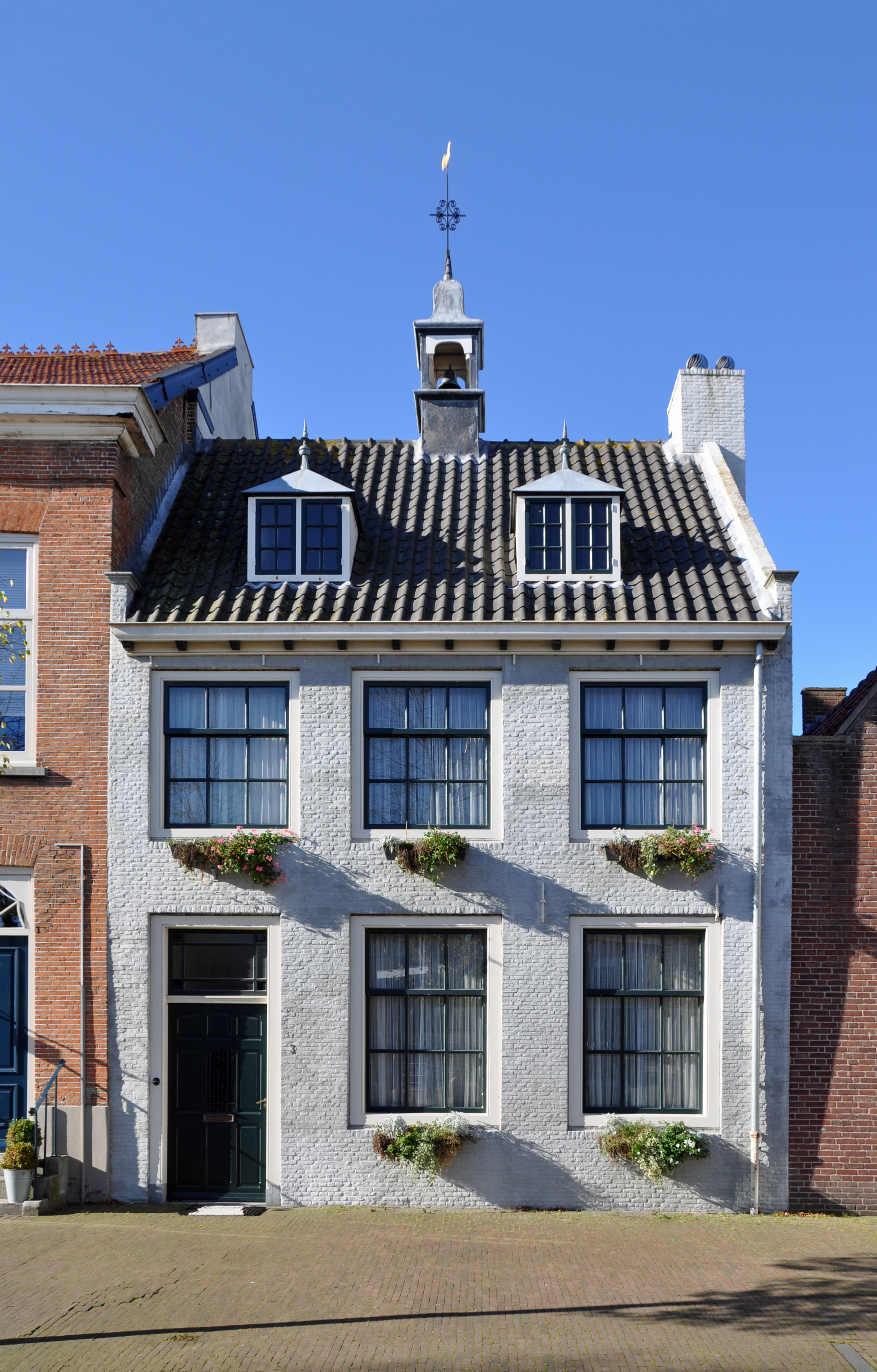 IJzendijke (Sluis, the Netherlands): house Markt 3